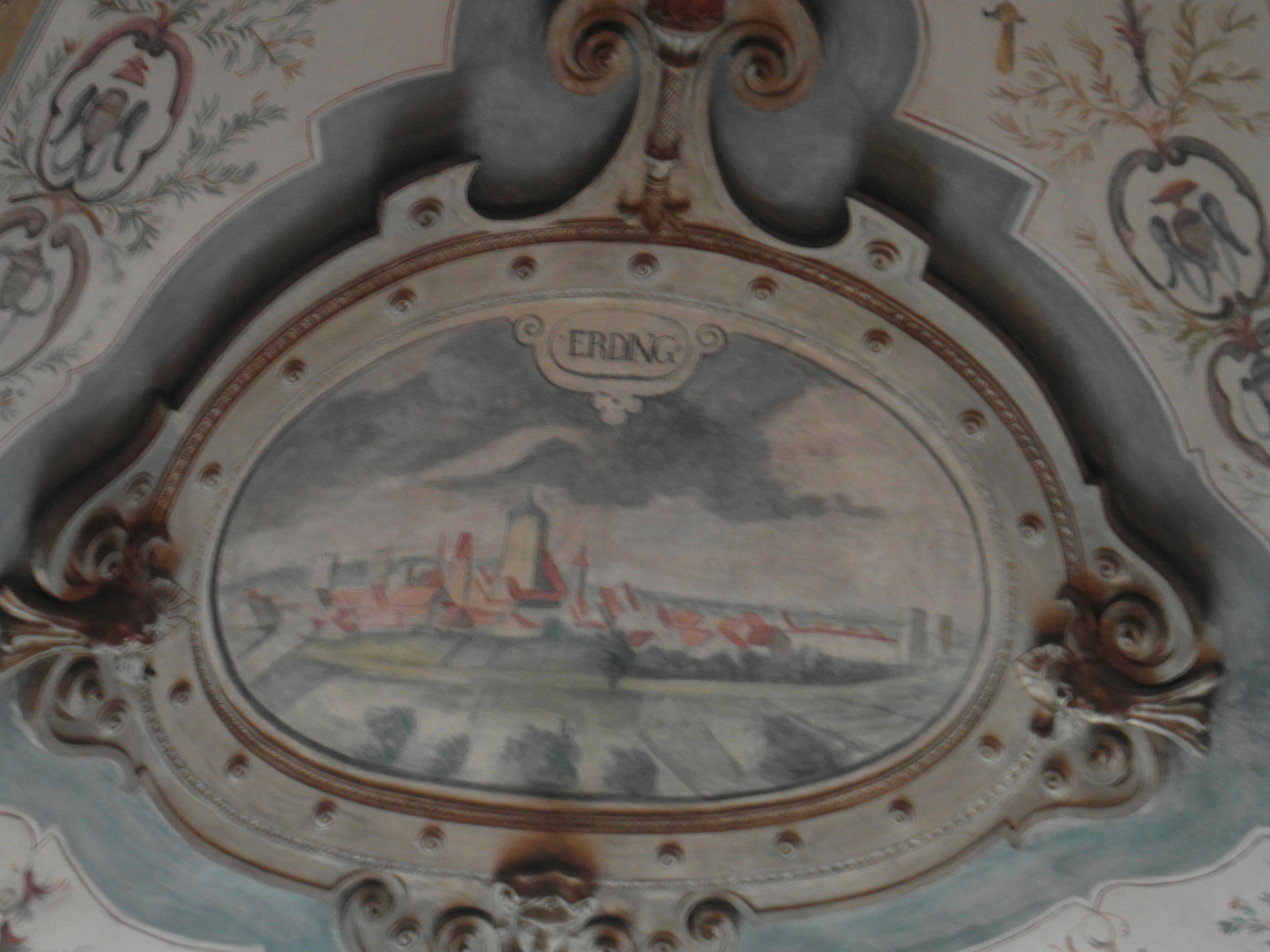 Erding